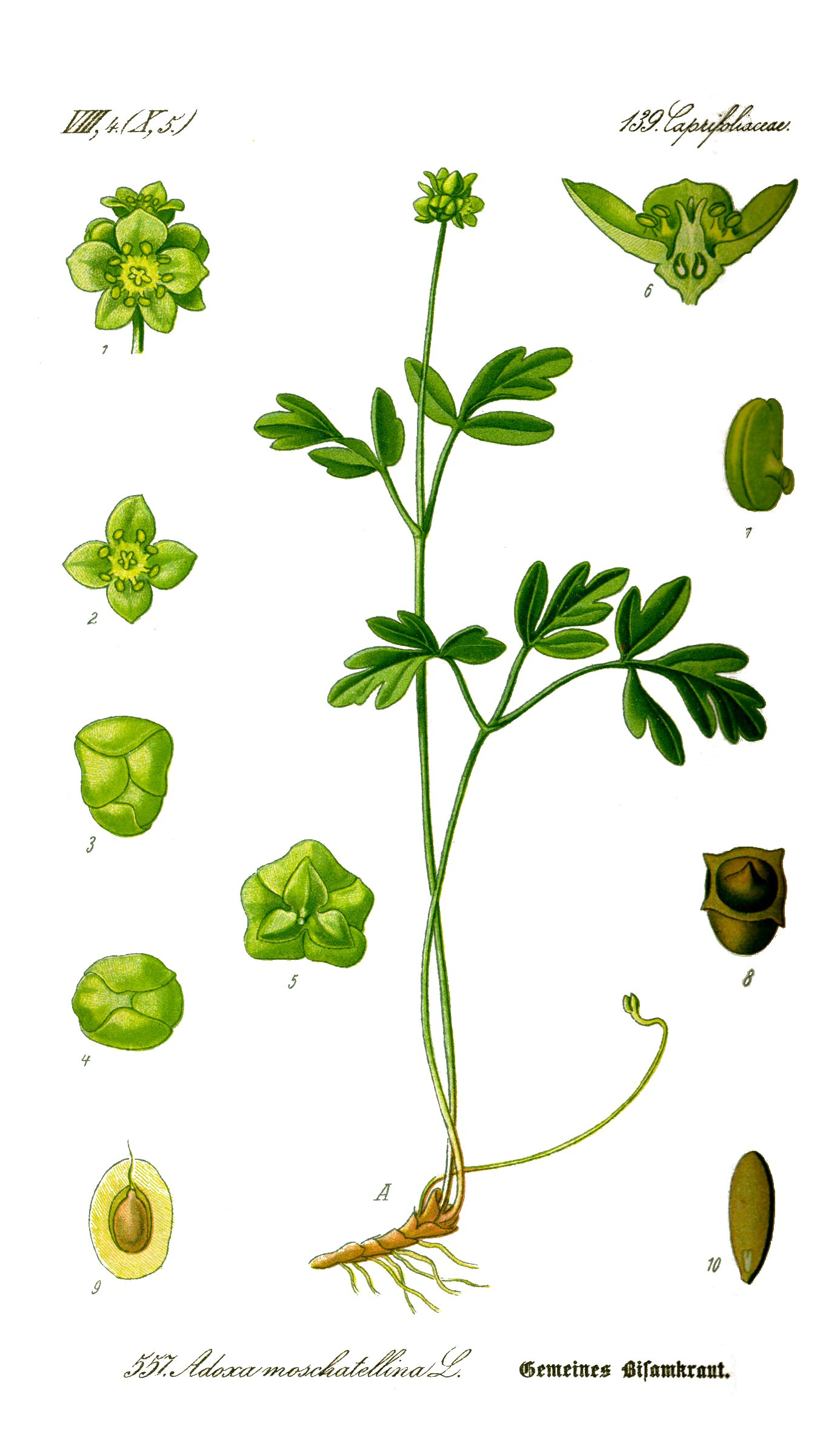 Clean version of Image:Illustration_Adoxa_moschatellina0.jpg Name Adoxa moschatellina Family Adoxaceae